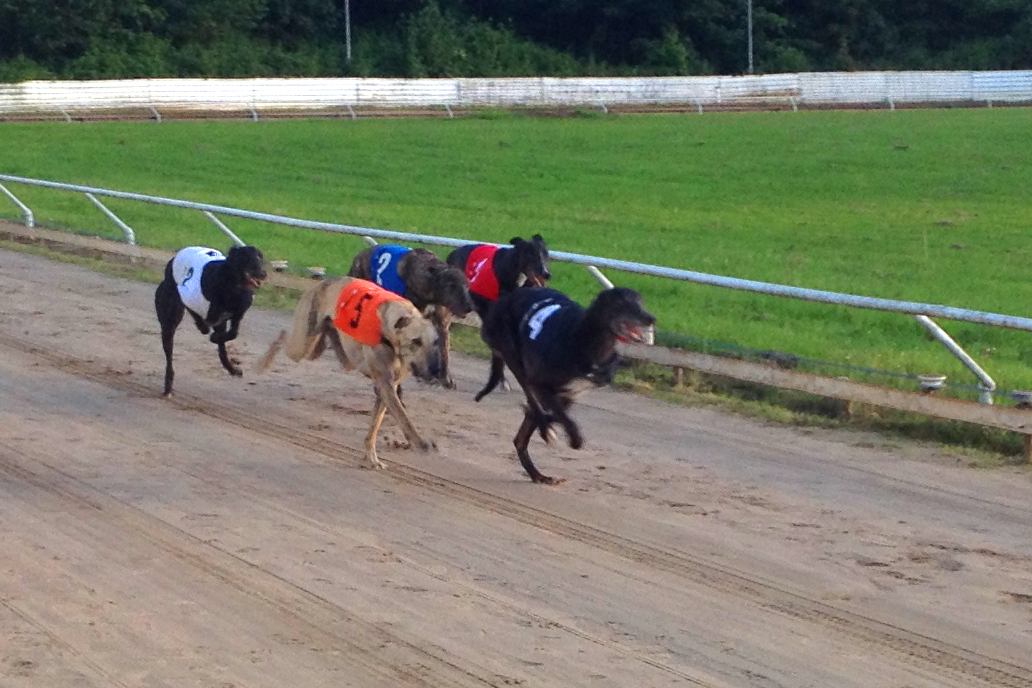 Race meetings are held every Thursday and Saturday evening at the Valley Greyhound Stadium